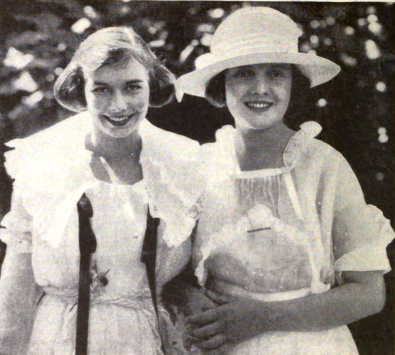 American actresses and sisters Constance Wilson (1905 – 1968) and Lois Wilson, page 82 of the November 1921 Photoplay.